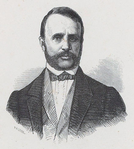 Antonio Gallenga (1810-1895), Italian patriot, journalist and writer who settled in England